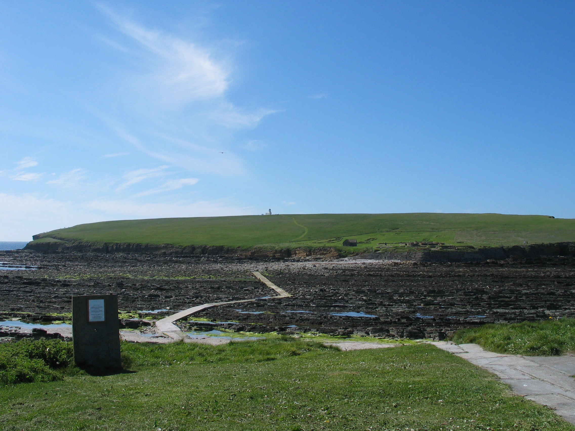 Brough of Birsay, Mainland, Orkney.